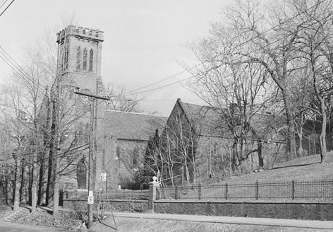 Church of the Holy Cross, Eighth & Grand Streets, Troy (Rensselaer County, New York) Object location42° 43′ 57″ N, 73° 41′ 01″ W